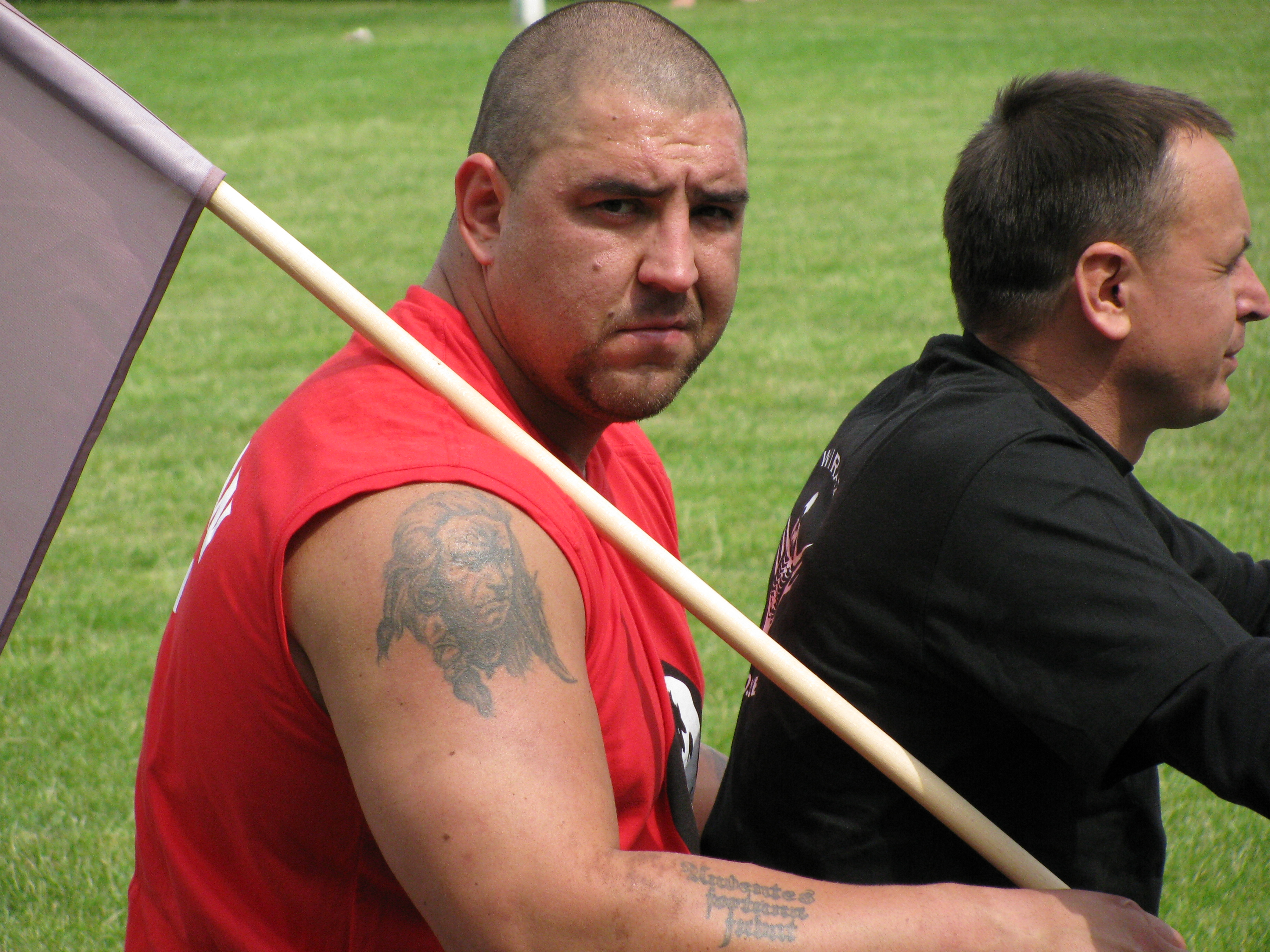 Raivis Vidzis - a strength athlete from Latvia during Europe's Strongest Man 2009 competition, Poland, Bartoszyce City